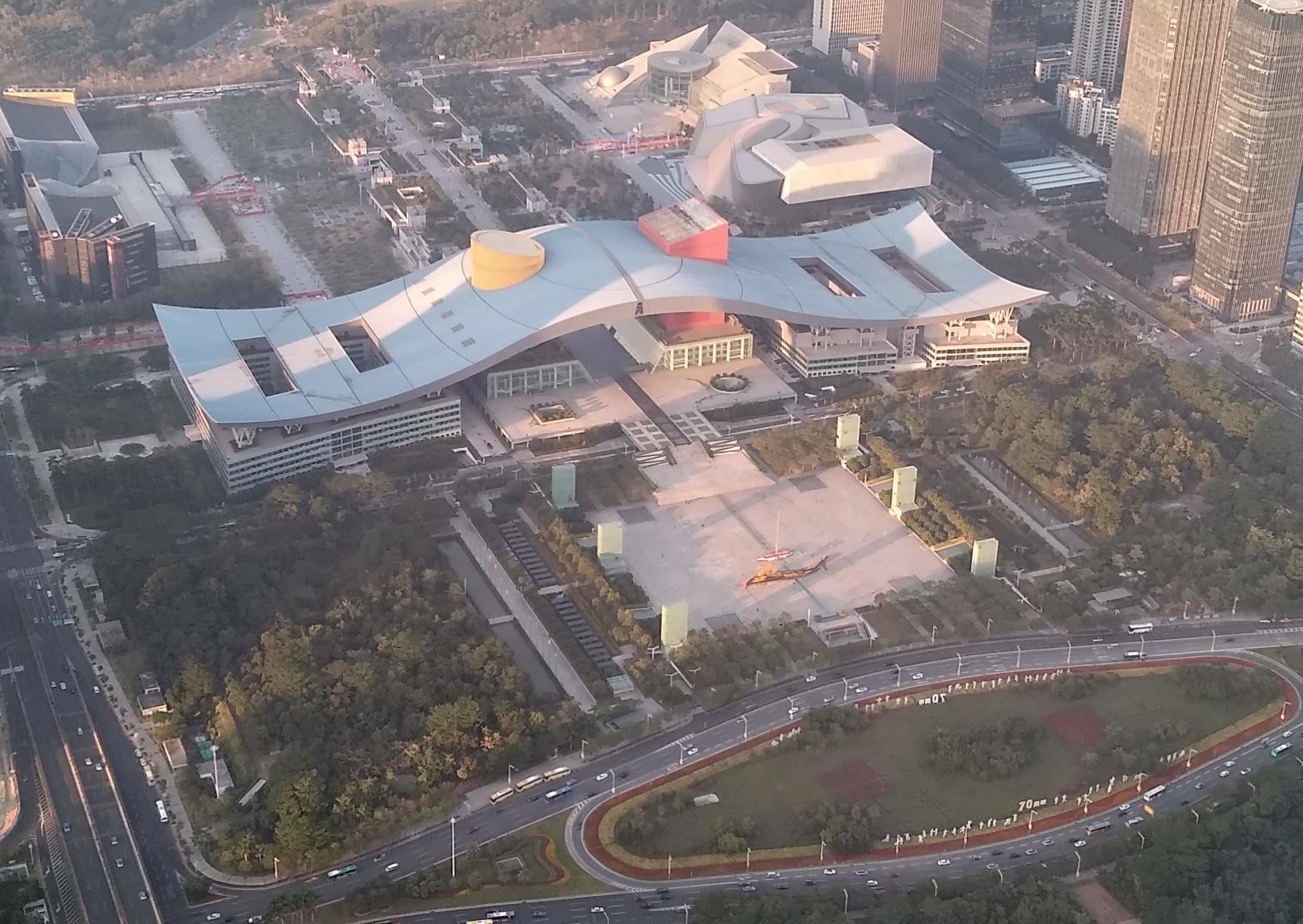 A view of the Shenzhen Civic Center from the Free Sky observation deck at Ping An Finance Centre in Shenzhen, China.